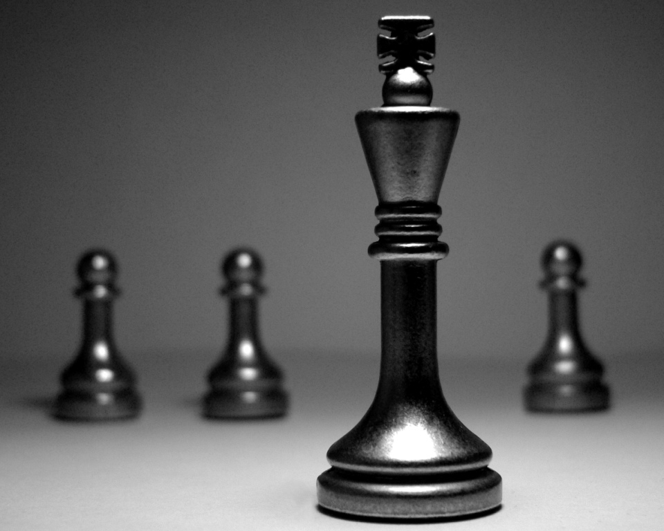 A king piece in chess, with three pawns.